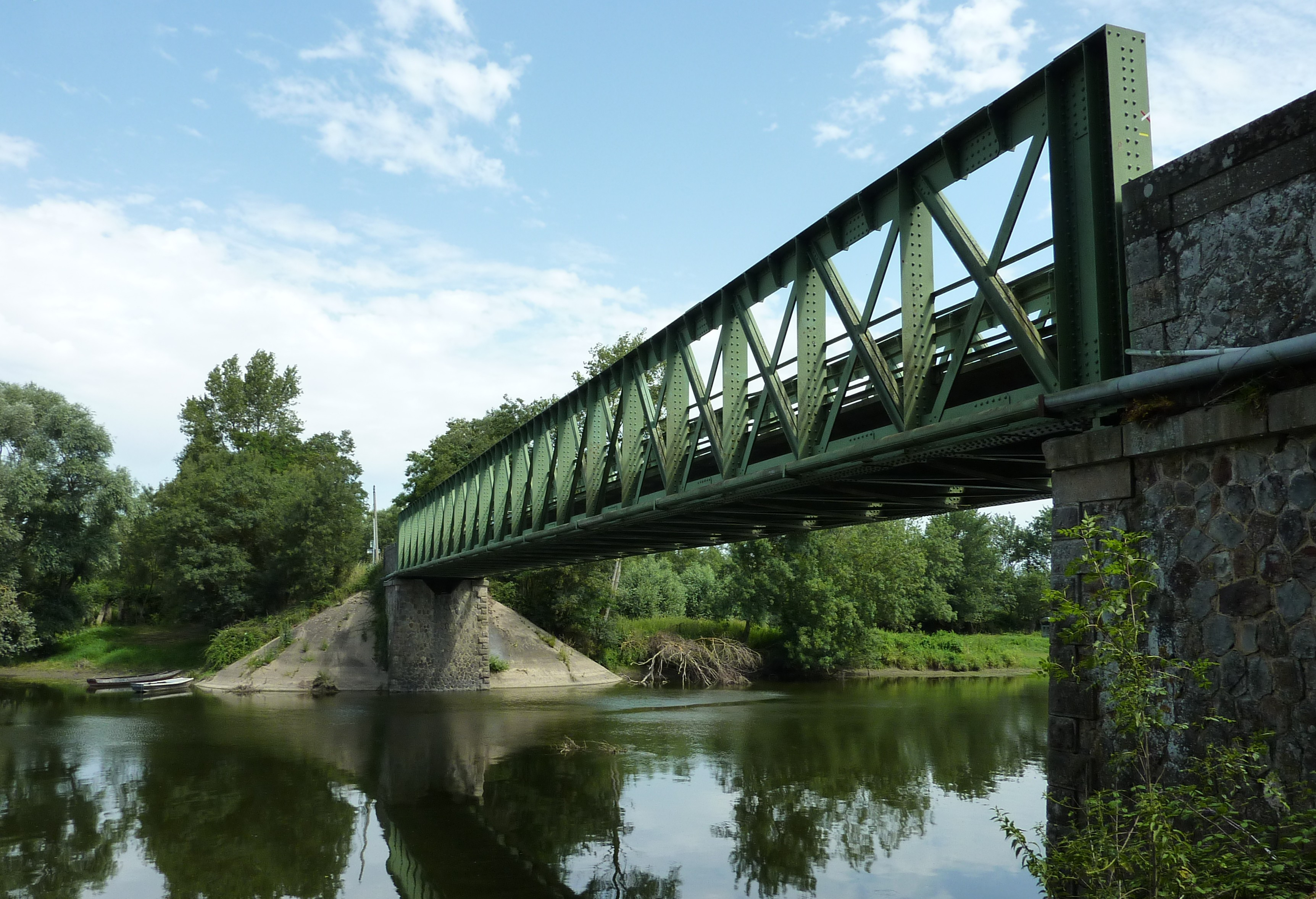 The Port Qui Tremble Bridge over Le Louet (branch of La Loire) between Saint-Jean-de-la-Croix and Denée (Maine-et-Loire)